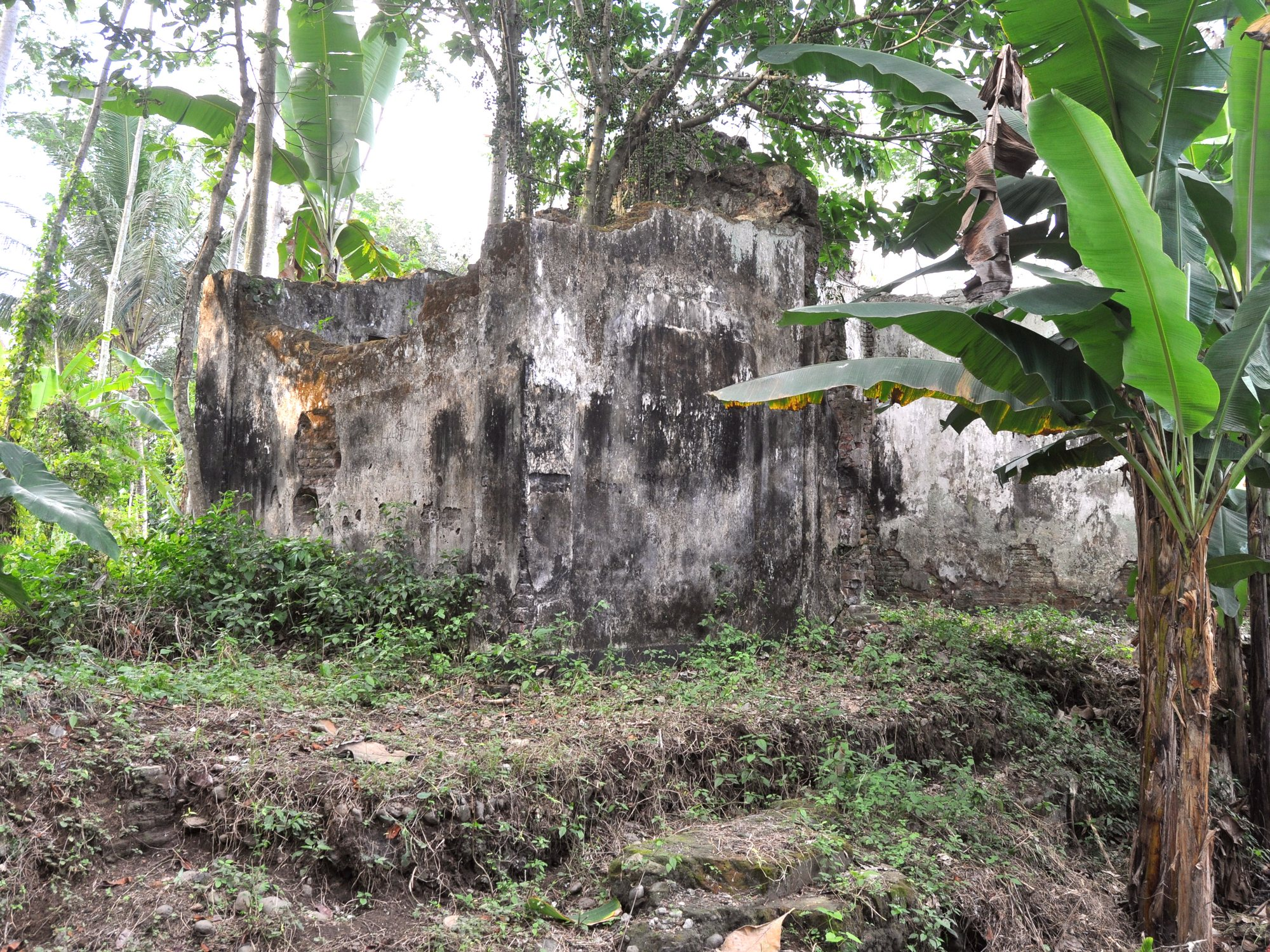 Ruins of ex Mujur train station in Tempeh, Lumajang, East Java, Indonesia.